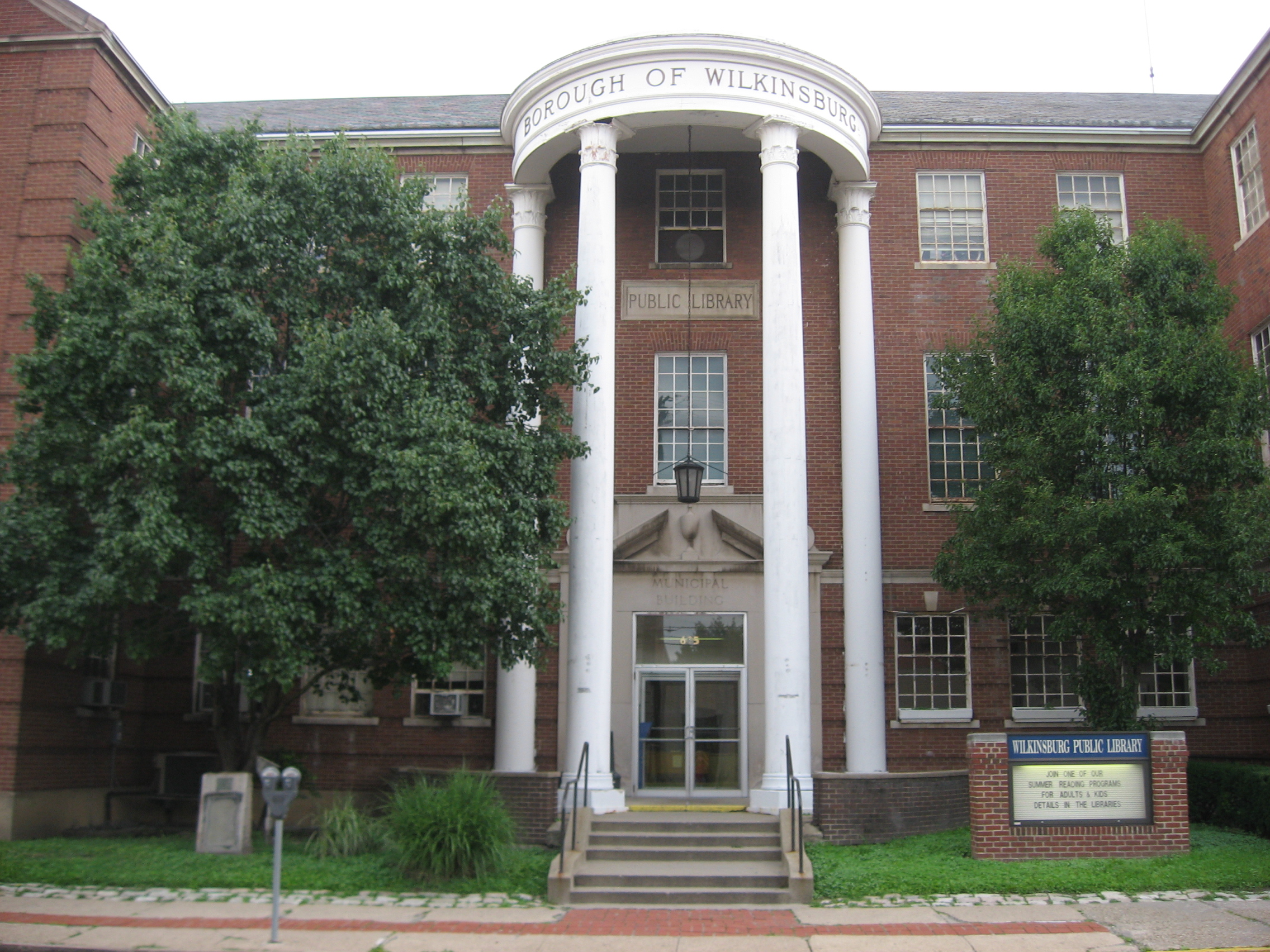 Entrance to the municipal building and library of Wilkinsburg, a borough on the eastern edge of Pittsburgh, Pennsylvania, United States. Address 605 Ross Avenue; picture taken from the opposite side of Ross.